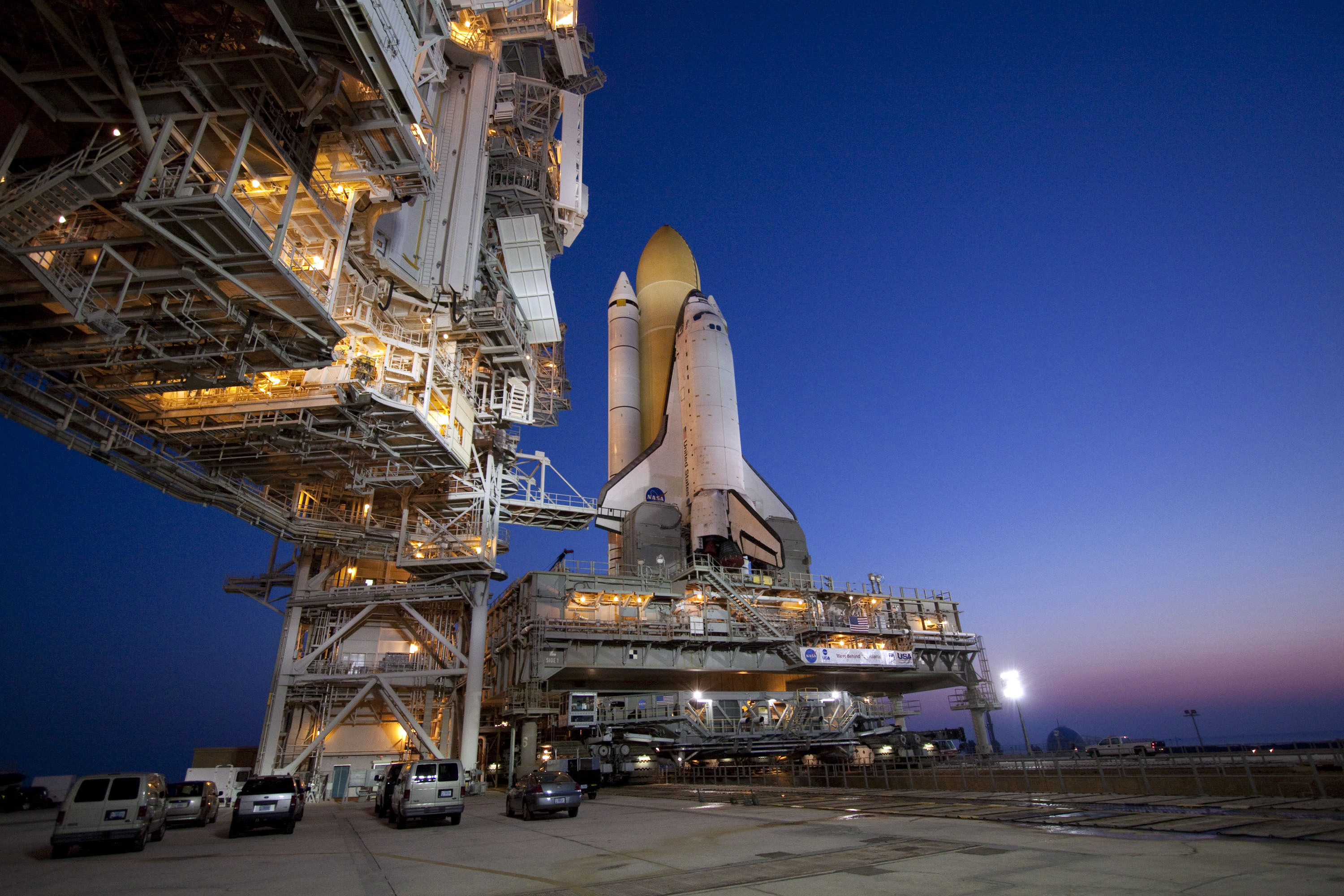 Morning breaks over Launch Pad 39A at NASA's Kennedy Space Center in Florida following the arrival of space shuttle Atlantis. Atlantis' first motion on its 3.4-mile trip from the Vehicle Assembly Building was at 11:31 p.m. EDT April 21. The shuttle was secured, or "hard down," on the pad at 6:03 a.m. April 22. Rollout is a significant milestone in launch processing activities. On the STS-132 mission, the six-member crew will deliver an Integrated Cargo Carrier, or ICC, and the Russian-built Mini-Research Module-1, or MRM-1, to the International Space Station. The ICC is an unpressurized flat bed pallet and keel yoke assembly used to support the transfer of exterior cargo from the shuttle to the space station. The MRM-1, known as Rassvet, is the second in a series of new pressurized components for Russia and will be permanently attached to the Earth-facing port of the Zarya control module. Rassvet, which translates to "dawn," will be used for cargo storage and will provide an additional docking port to the station. STS-132 is the 34th mission to the station and the 132nd shuttle mission overall. Atlantis is targeted to launch on May 14 at 2:19 p.m.